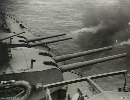 HMAS Shropshire's forward 8 inch guns during the bombardment of Morotai